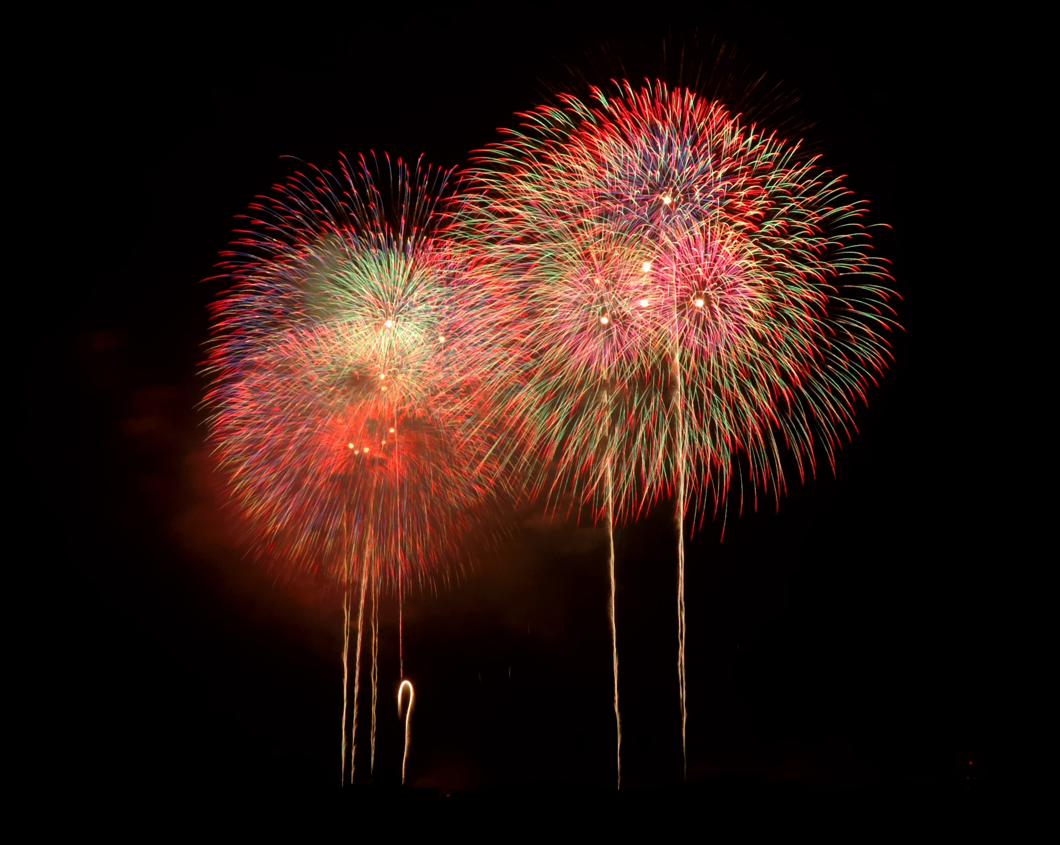 Fireworks of Nagaoka Festival.